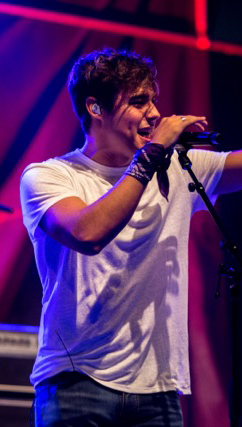 A 2017 photo of Mexican singer and actor Jorge Blanco.